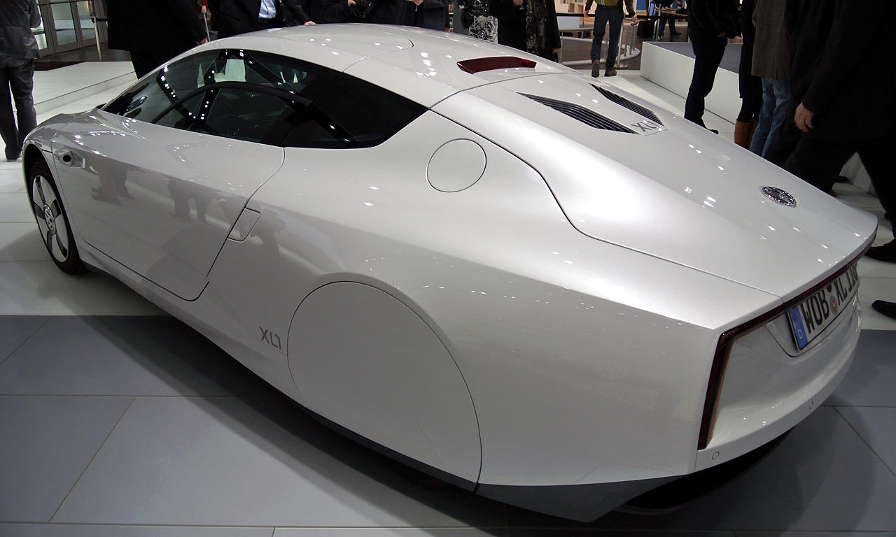 Volkswagen XL1 at Hannover Messe 2013 _________________ Please feel free to use this image for FREE under the Creative Commons (CC) licence. However, if you use the image, pls set a backlink to and give credit as following: "Image: ". For highres images or any other inquiries pls contact mailto: . Thanks.